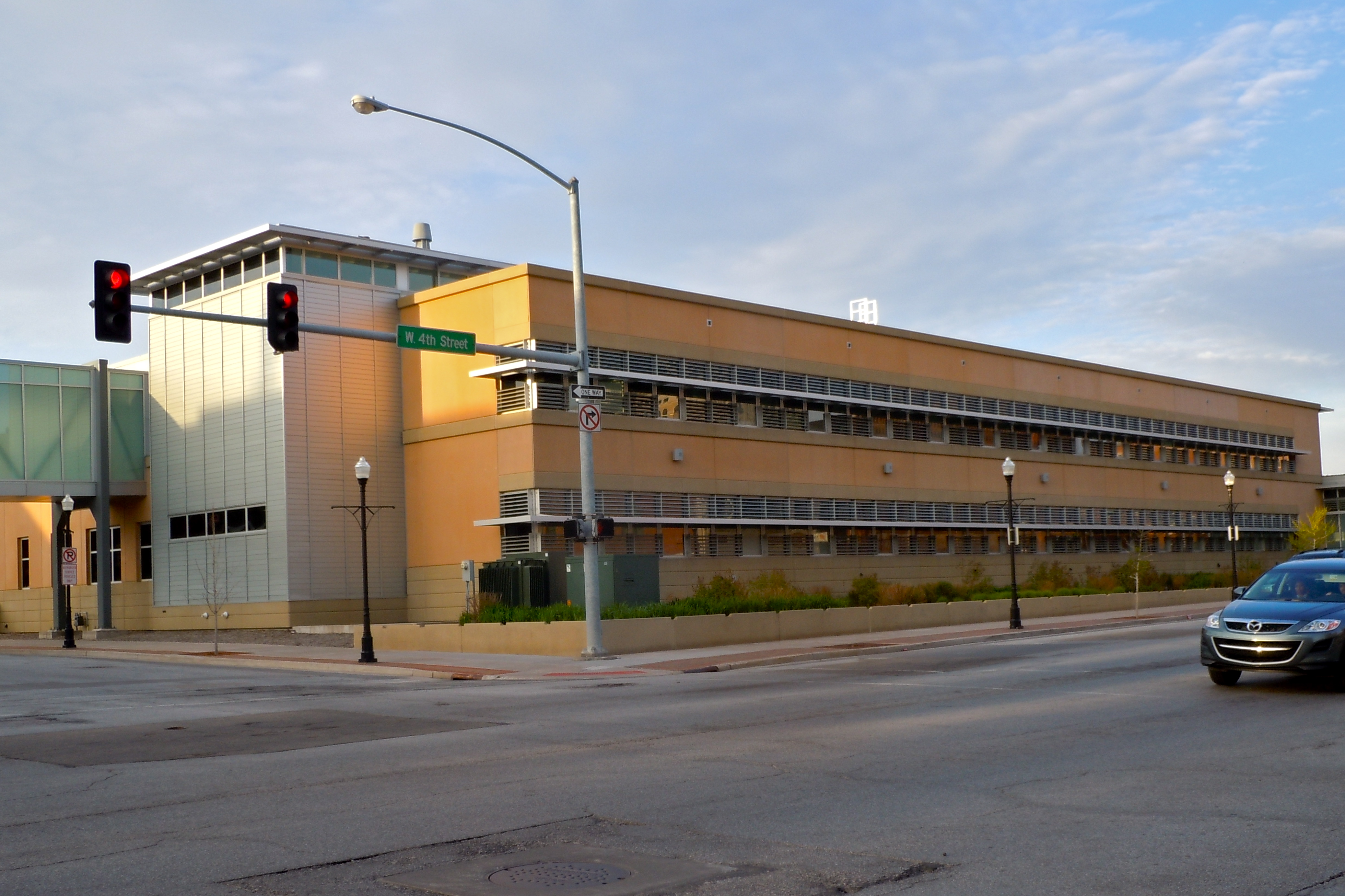 Davenport, Scott County, Iowa Police Department Headquarters. The "bridge of sighs" to the left leads straight to the court house. This was the site of the Walsh Flats/Langworth Building on the NRHP since April 5, 1984. At 320-330 W. 4th St., Davenport, IA. Was a c lassical Revival style apartment block from 1910